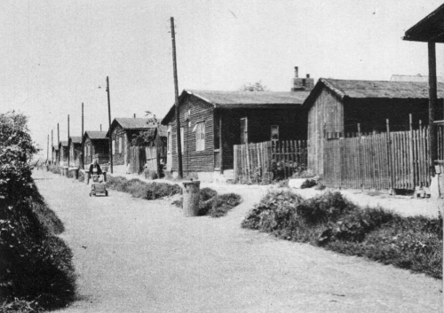 Colony Arizona Česky: Dělnická kolonie Arizona